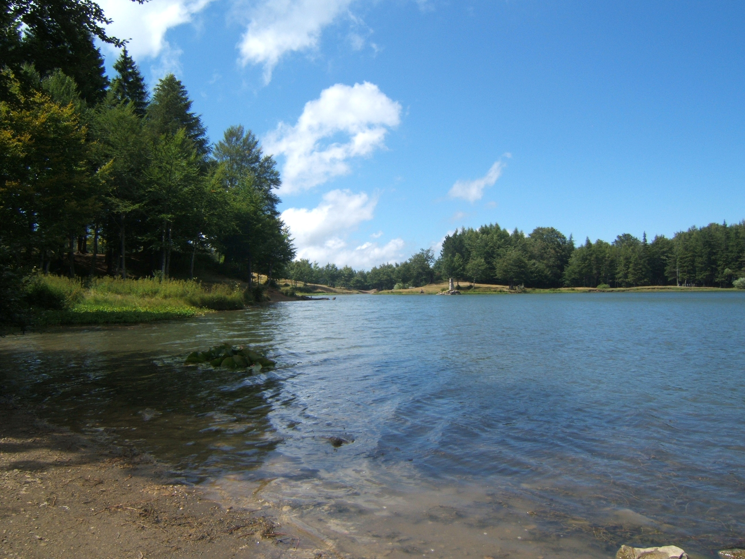 Lago Calamone